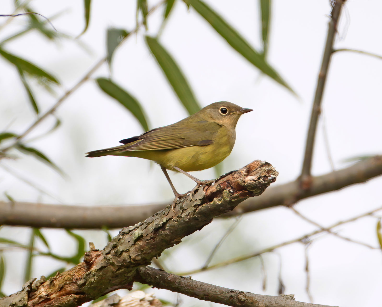 Connecticut Warbler Oporornis agilis, Youghiogheny River Lake, Garrett Co., Maryland.